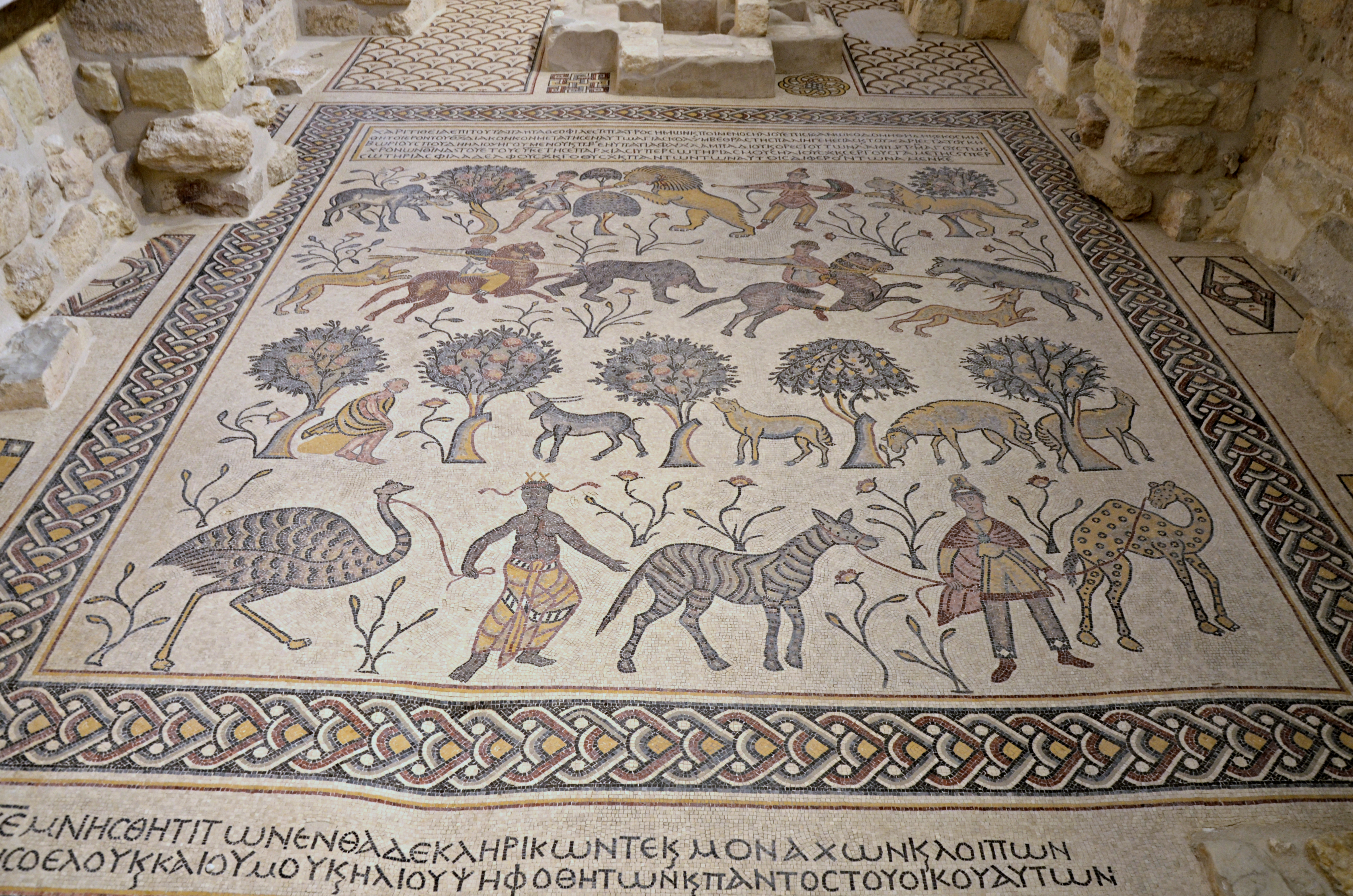 The mosaic of 531 is a large square divided into four strips of scenes of men and animals, surrounded by a chain-style border. The top two sections depict fierce hunting scenes: a shepherd fighting a lion, a soldier fighting a lioness, and two horseback hunters defeating a bear and wild boar. The lower scenes are pastoral but with a touch of the exotic: a shepherd watching his goat and sheep graze in the shade of trees; an ostrich on a leash held by a dark-skinned man; and a boy holding the leashes of a zebra and a spotted animal that looks very much like a camel but might be intended to represent a giraffe.